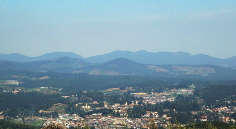 Ooty India